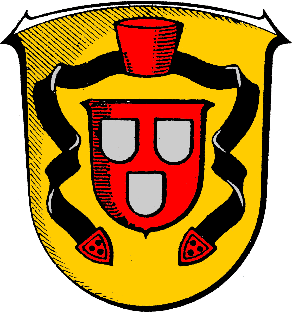 Coat of Arms of Willingshausen